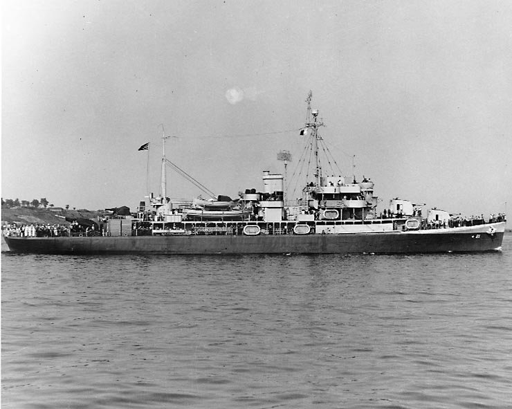 United States Navy seaplane tender USS Humboldt (AVP-21) after modifications at the Boston Navy Yard